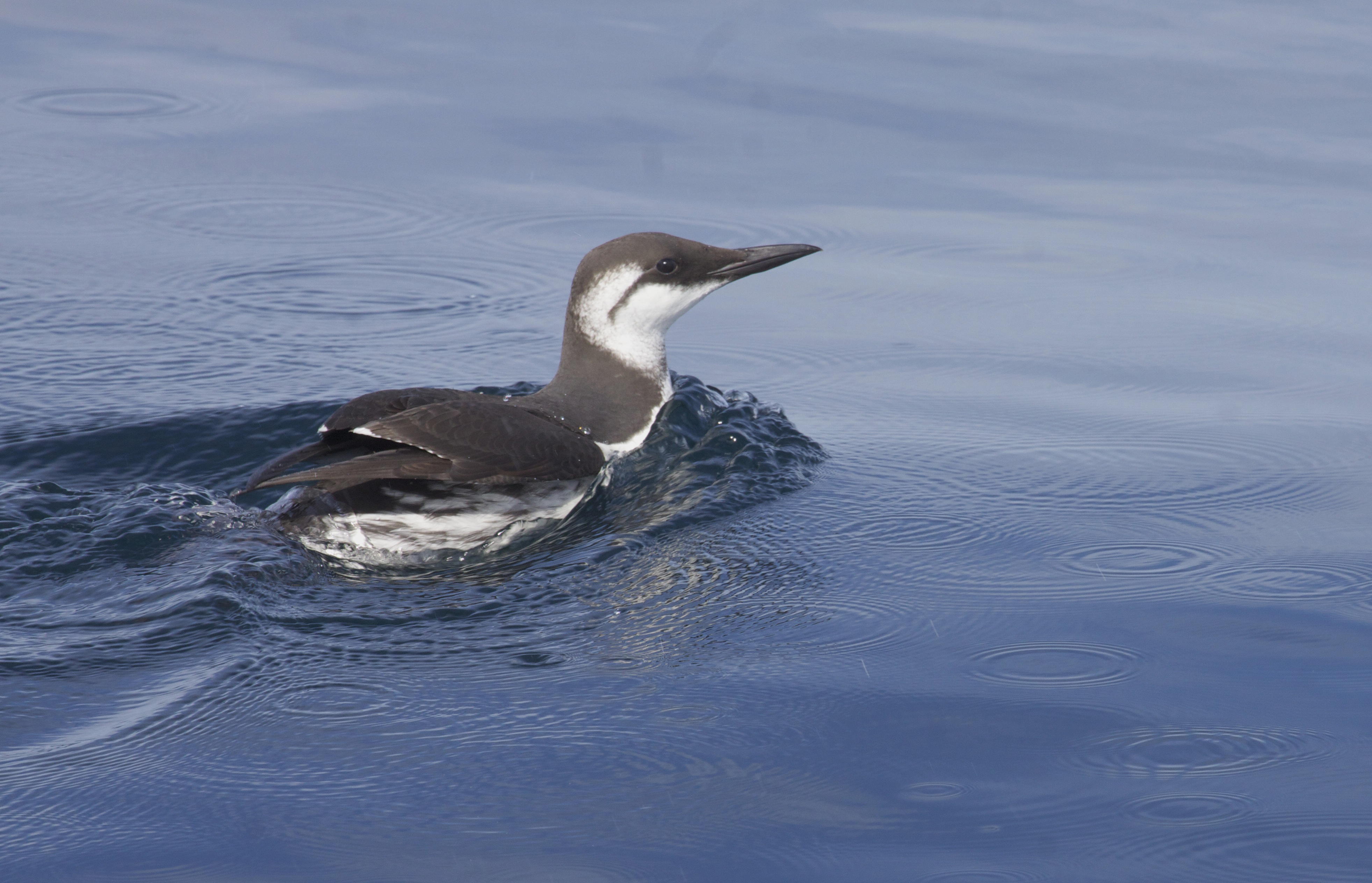 A circumpolar nester, the Common Murre is probably the most "common" alcid visible off of the coast of California.